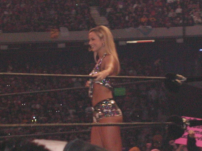 "The Duchess of Dudleyville": Stacy Keibler at WrestleMania X8. Skydome, Toronto, ON, March 17 2002.